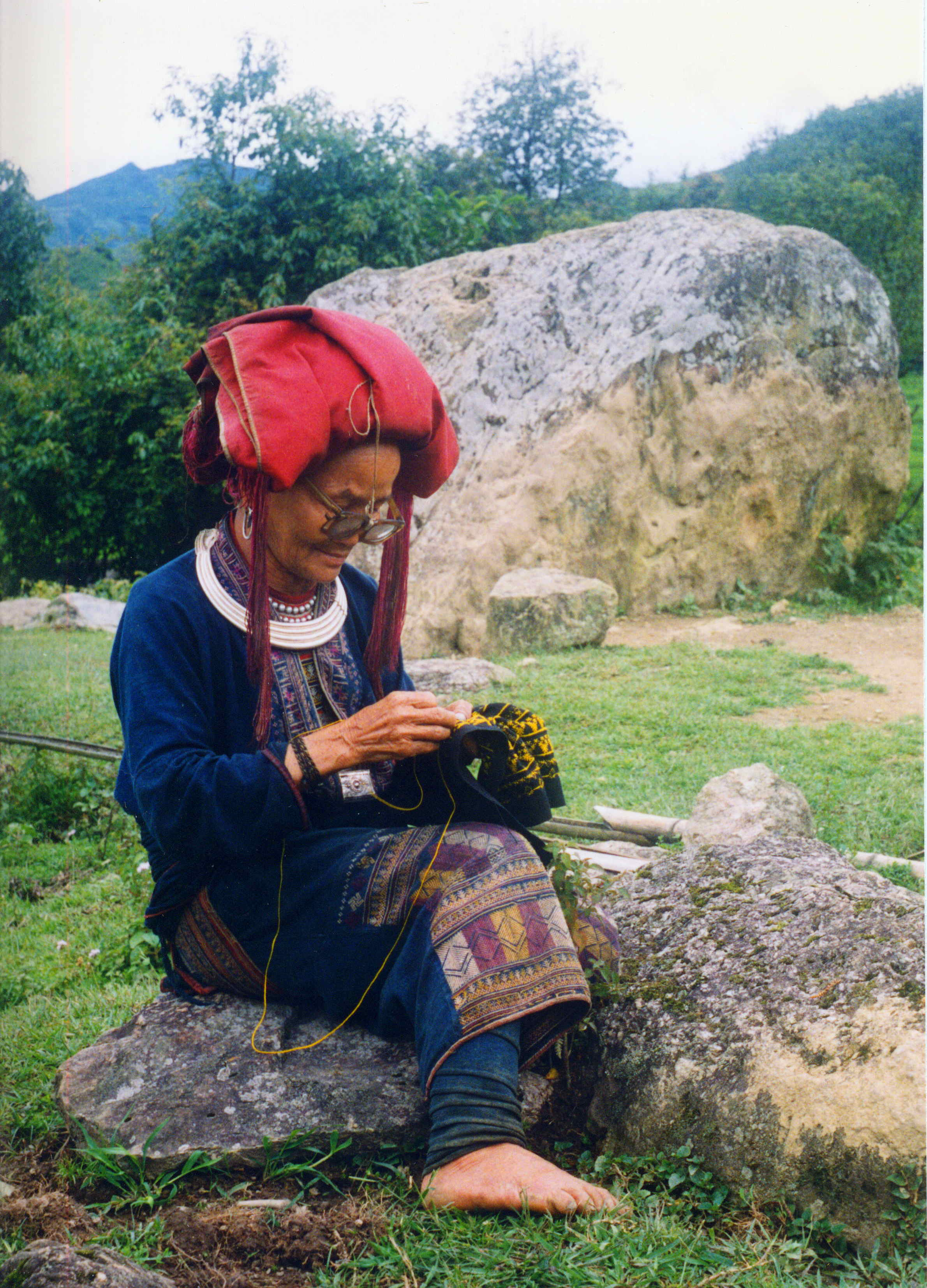 Yao woman in Sa Pa (Viêt-Nam), 1993